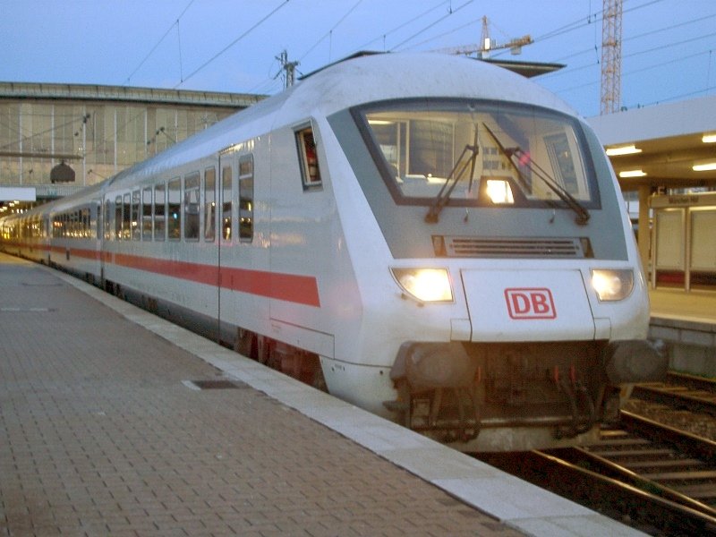 DBAG Intercity end car Bpmbdzf296.1 at Munich Central Sta., Germany